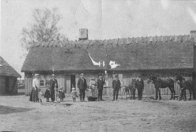 Axtorna #3 Eskelsgård ca 1910. All buildings were destroyed by fire in 1940. Pictured among others are the owner Aron Jönsson (born 1847) and his wife Beata Johansdotter (born 1850)